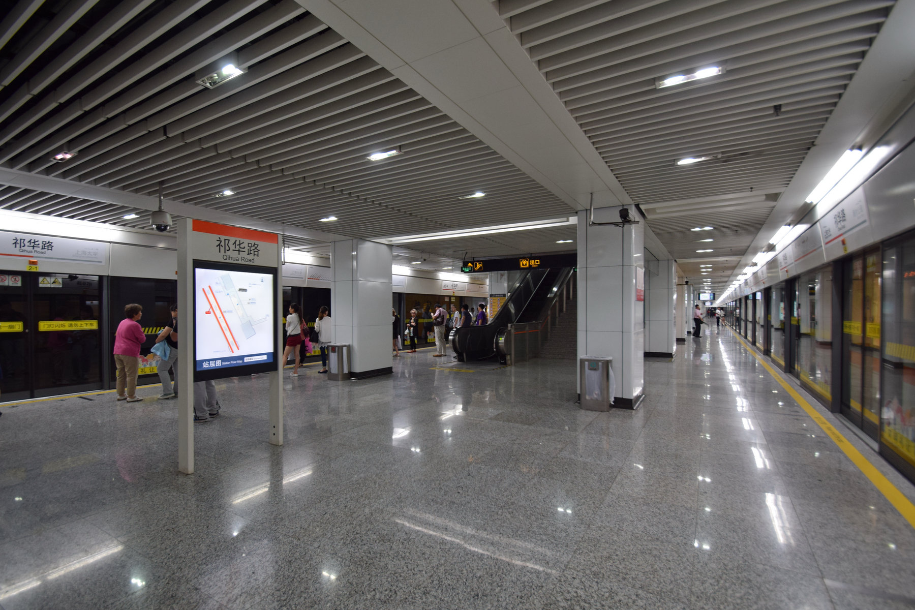 Line 7 Platform of Qihua Road Station, Shanghai Metro